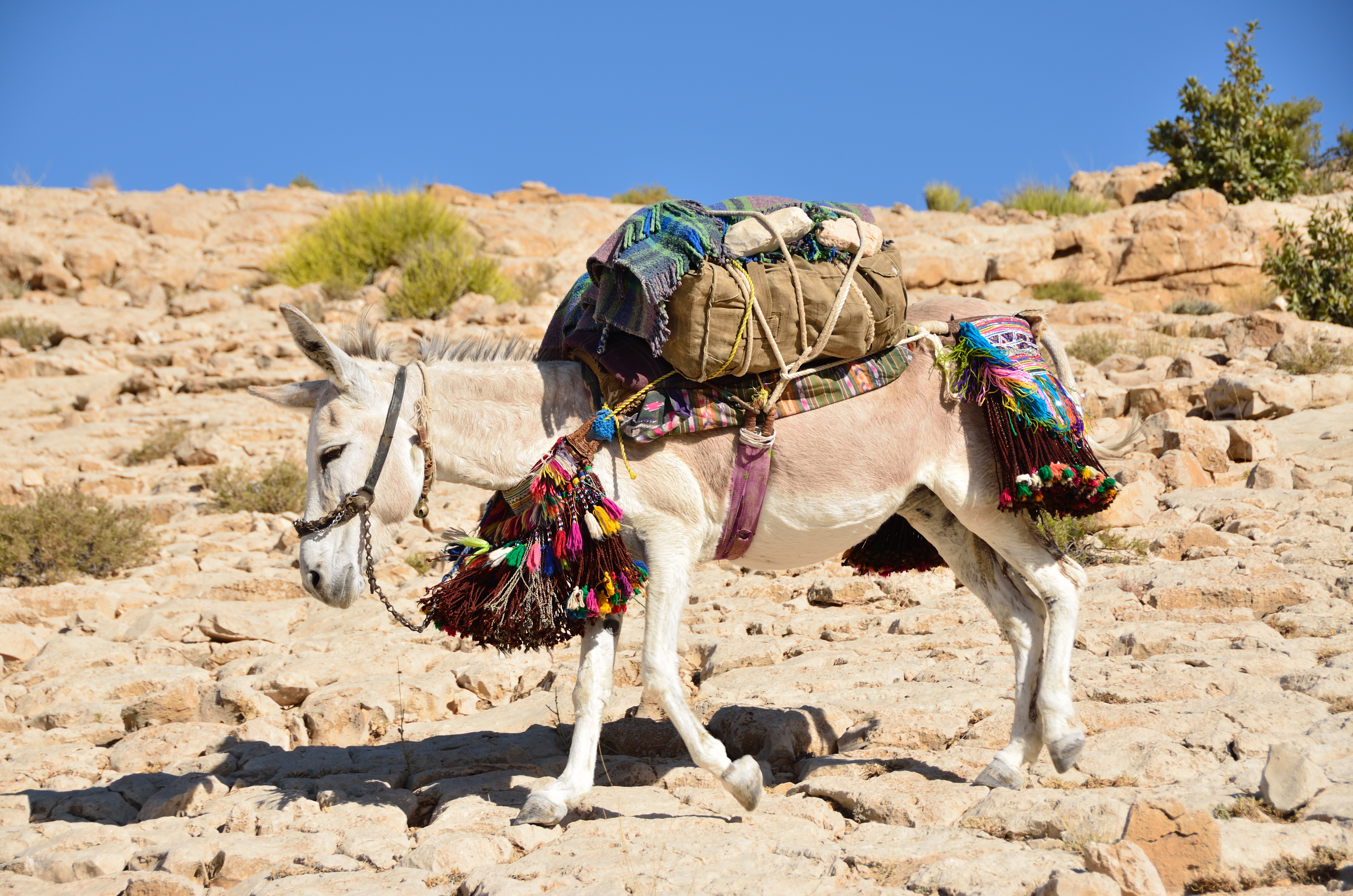 It's amazing how fast they run : Donkey (Muqal, Ash Sharqiyah, Oman).